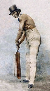 Print of Fuller Pilch